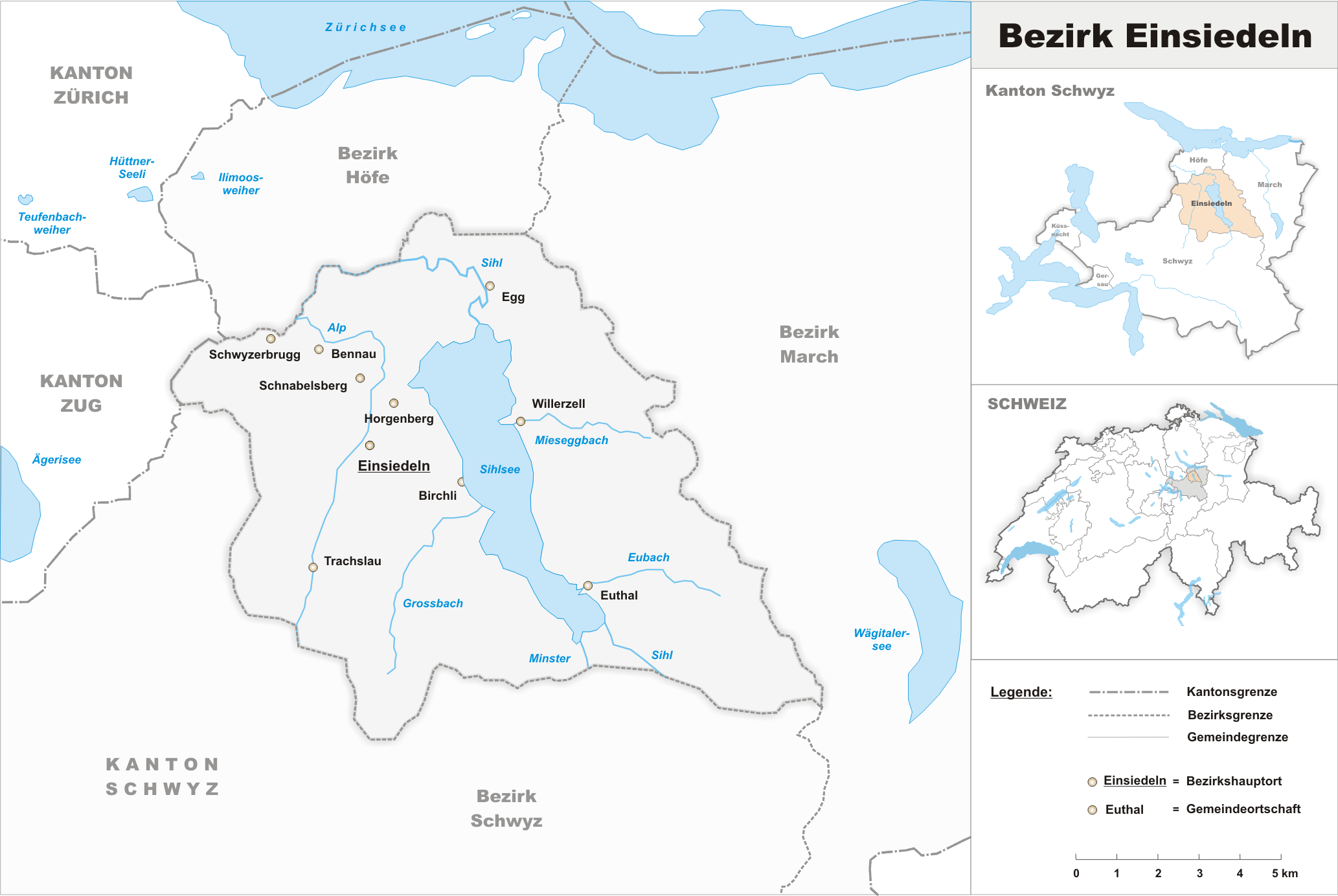 Municipalities in the district of Einsiedeln